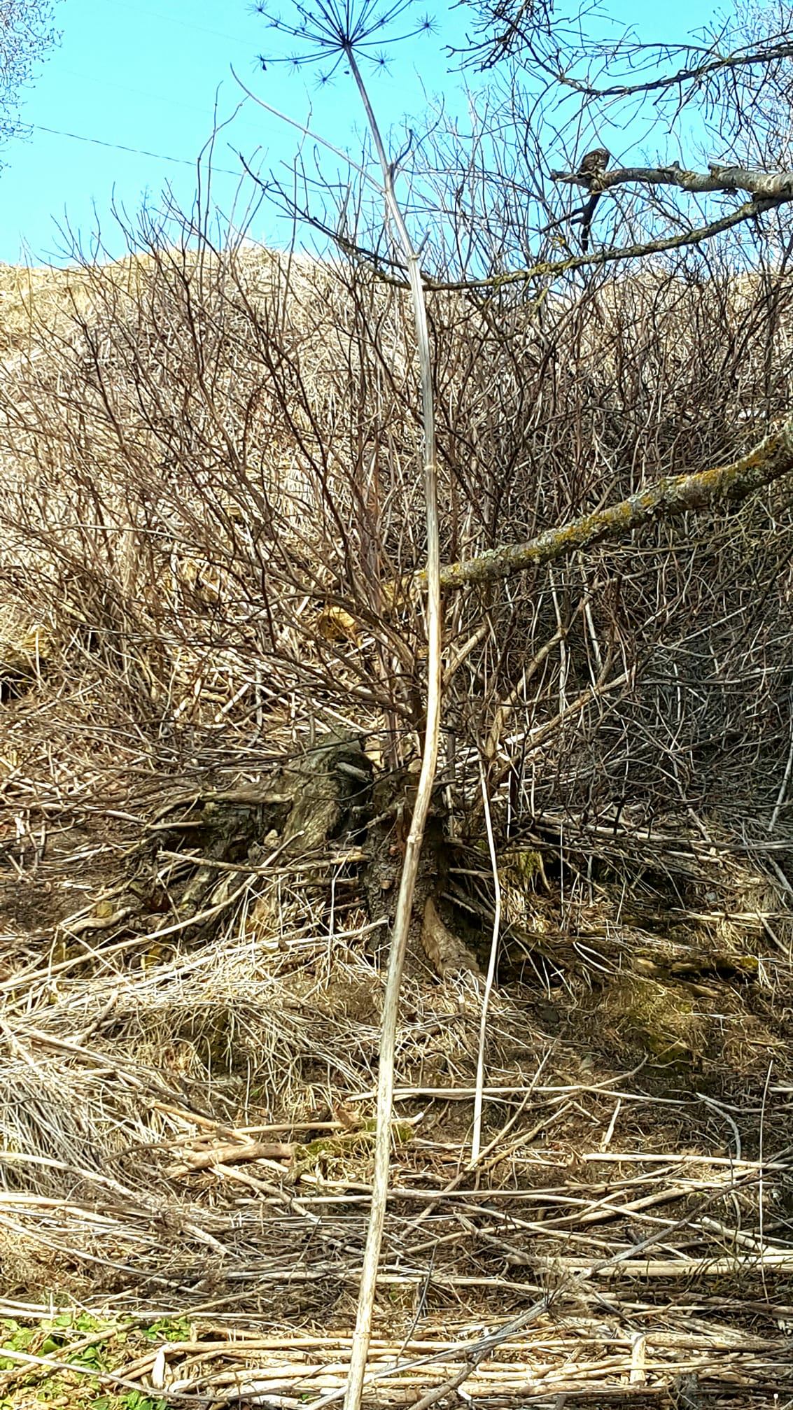 Dead stalks of cow parsnip in late winter, a northern saw-whet owl is also visible in the background, photo is in same location as File:Big pushki.jpg